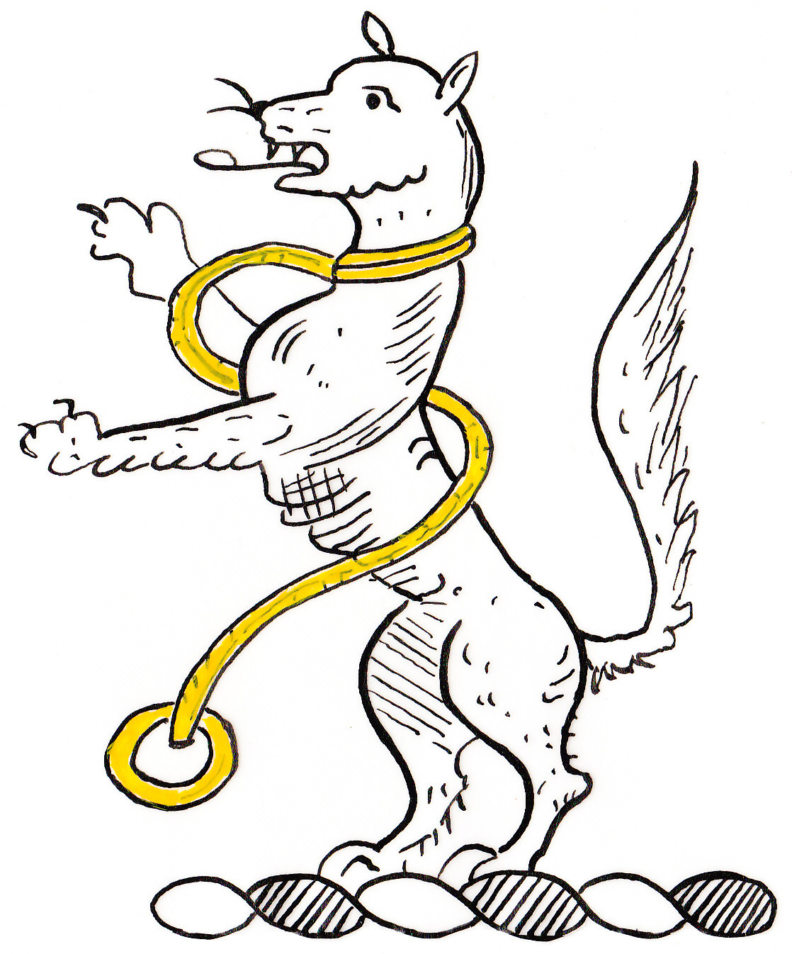 Crest of Sir Maurice Denys(d.1563) of Siston, Gloucestershire: A wolf rampant argent chained or. As drawn in Cotton manuscript Claudius CIII, folio 157b, (British Library), reproduced in late 19th.c. drawing in the "Barnard Papers", Bristol Archives P/Puc/HM/1. The attitude of the wolf is described as quare si forte sederet vel hoc modo surgeret lupus (Just as if by chance he was seated then in this manner might the wolf rise up). Redrawn by (Lobsterthermidor (talk) 17:55, 16 May 2011 (UTC)), own work.